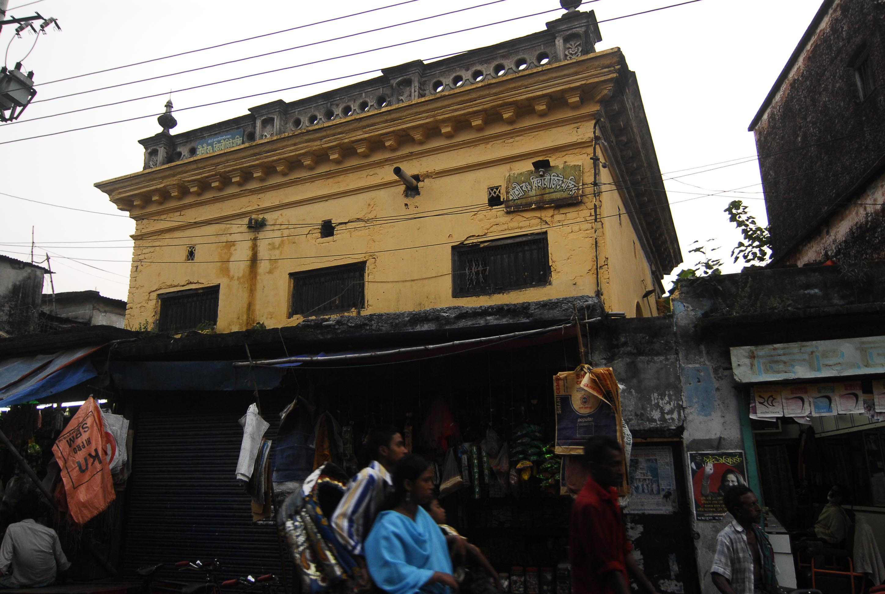 Sri Sri Bonko Bihari Zeu Mandir